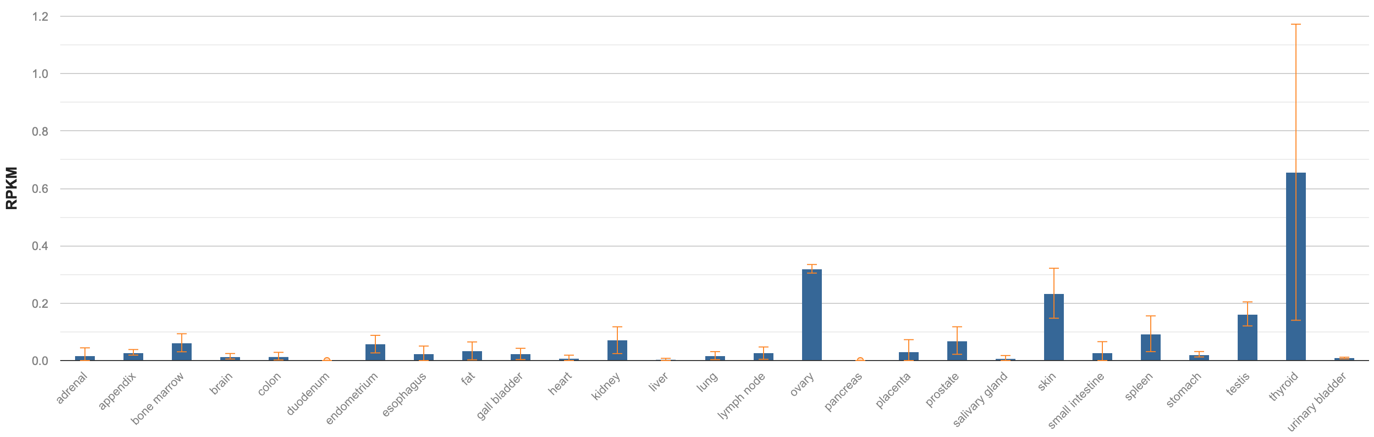 LOC101928193 Gene Expression NCBI Data